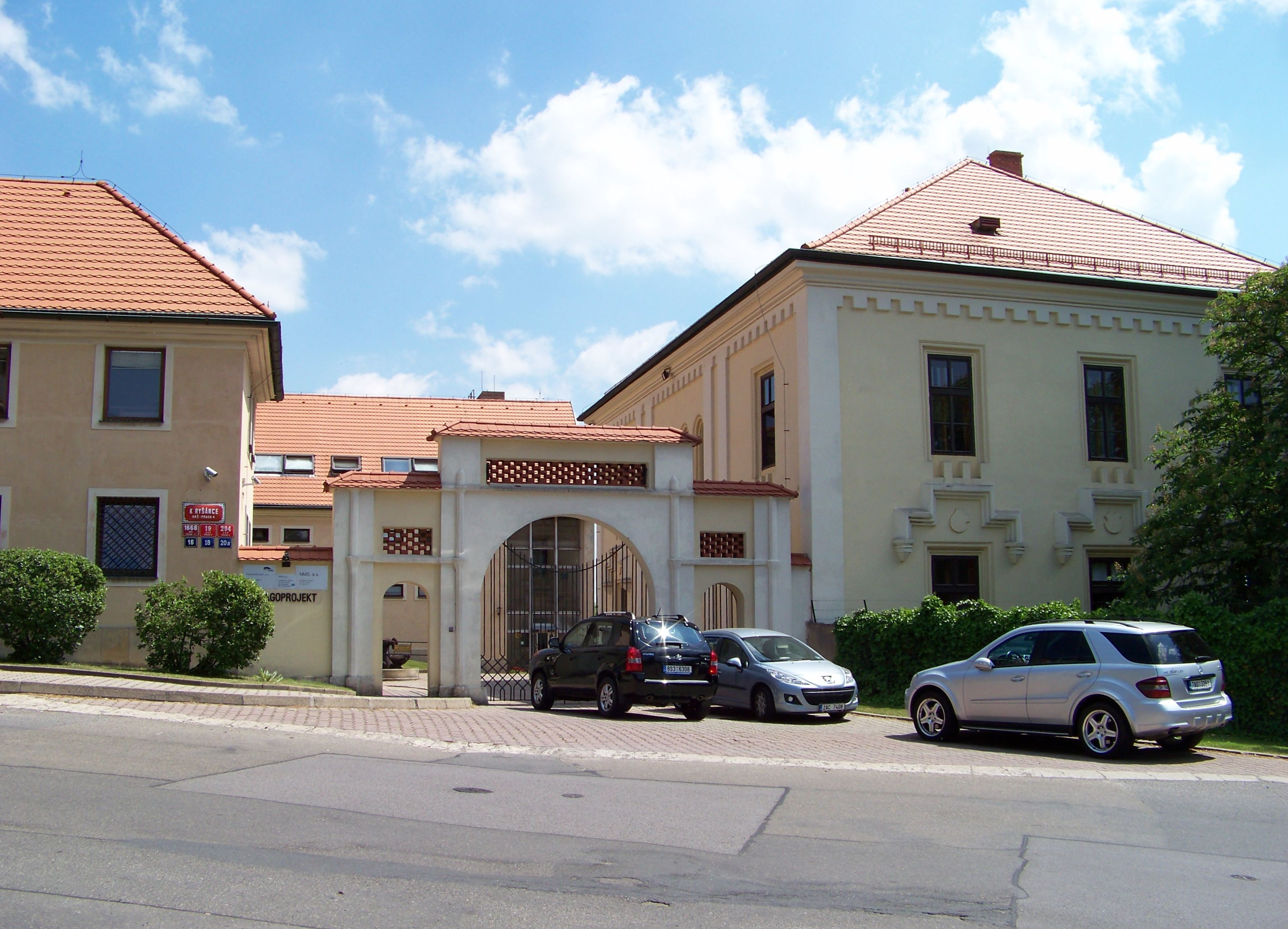 Prague-Krč, the Czech Republic. K Ryšánce street, Ryšánka homestead.